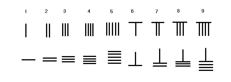 rod numerals 筹数一至九